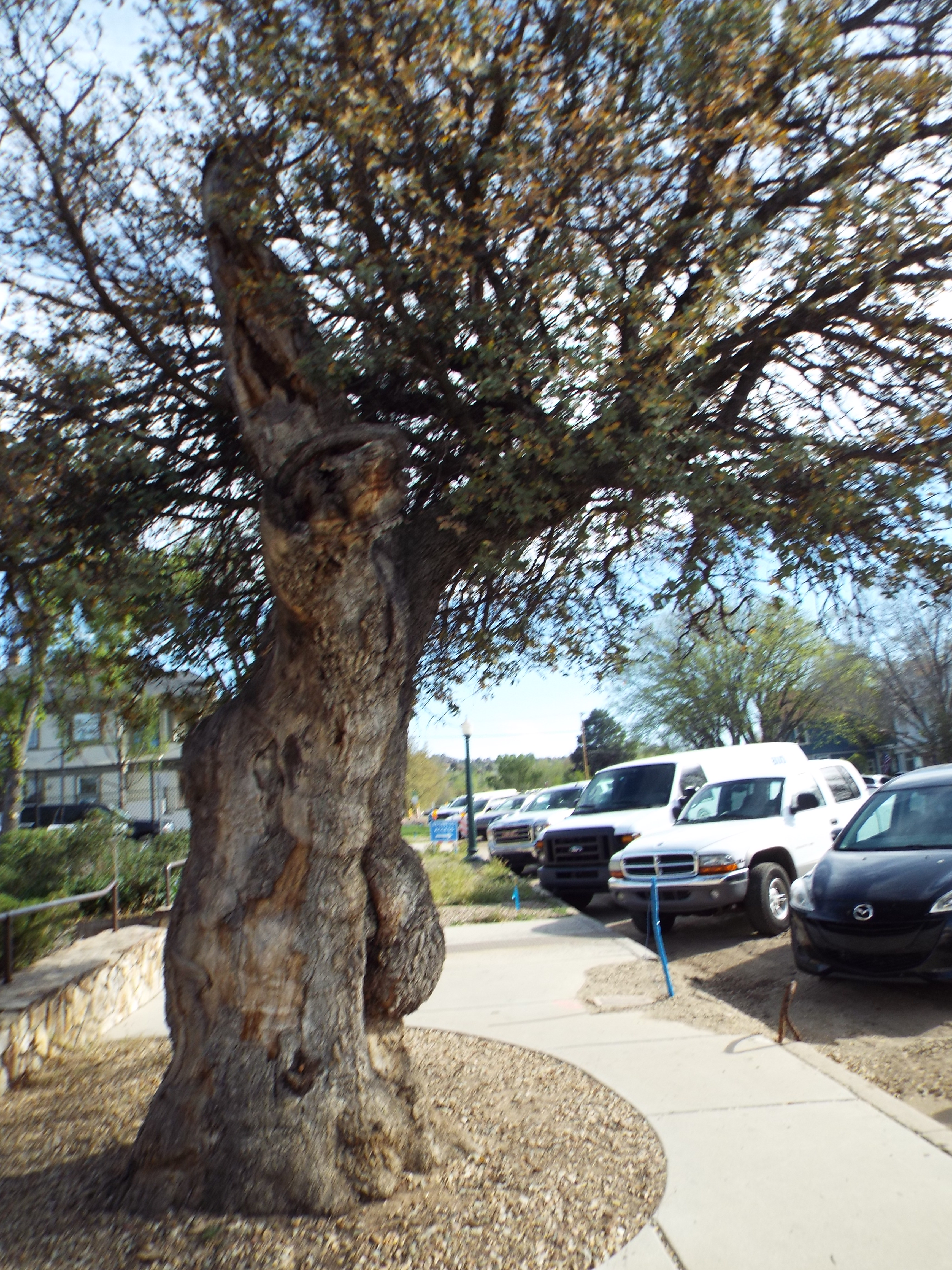 Historic Centennial Tree-1912-in Prescott, Az